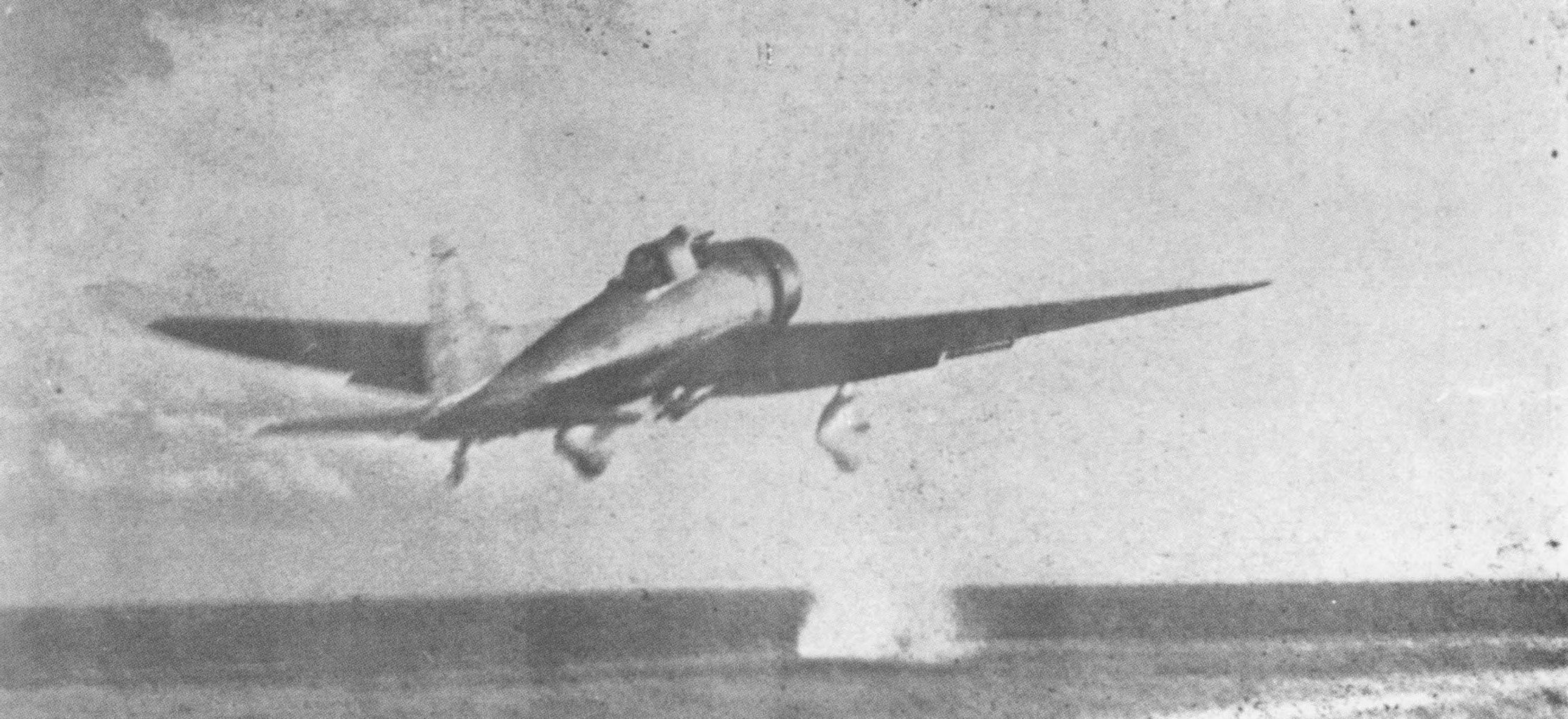 An Aichi D3A Type 99 kanbaku (dive bomber) launches from the Imperial Japanese Navy aircraft carrier Akagi to participate in the second wave during the attack on Pearl Harbor, Hawaii.